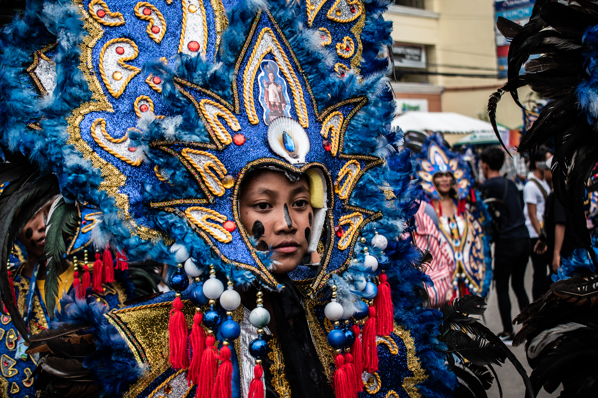 The Kalibo Ati-Atihan Festival is an annual religious festival that involves colorful costumes, dancing, parades, and more. It is one of the Philippines' largest festivals and lasts for an entire week in January, although the build up is often much longer. This photo has been taken in the country: Philippines